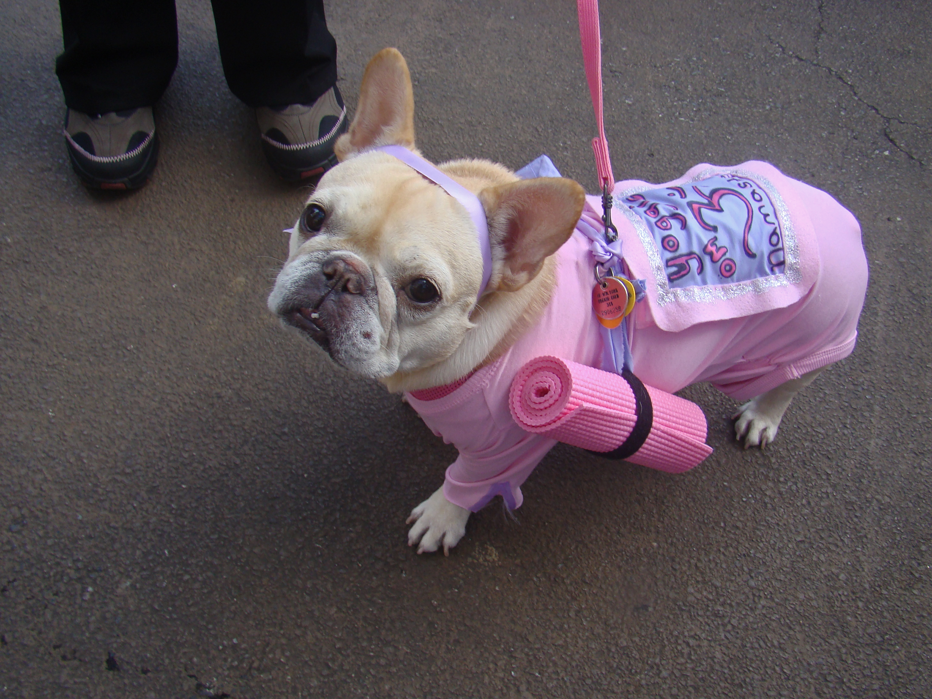 Yoga dog, Carl Schurz Park Annual Halloween Howl, October 25th, 2009, New York City. If you like this picture, check out my other pictures of dogs in costumes.